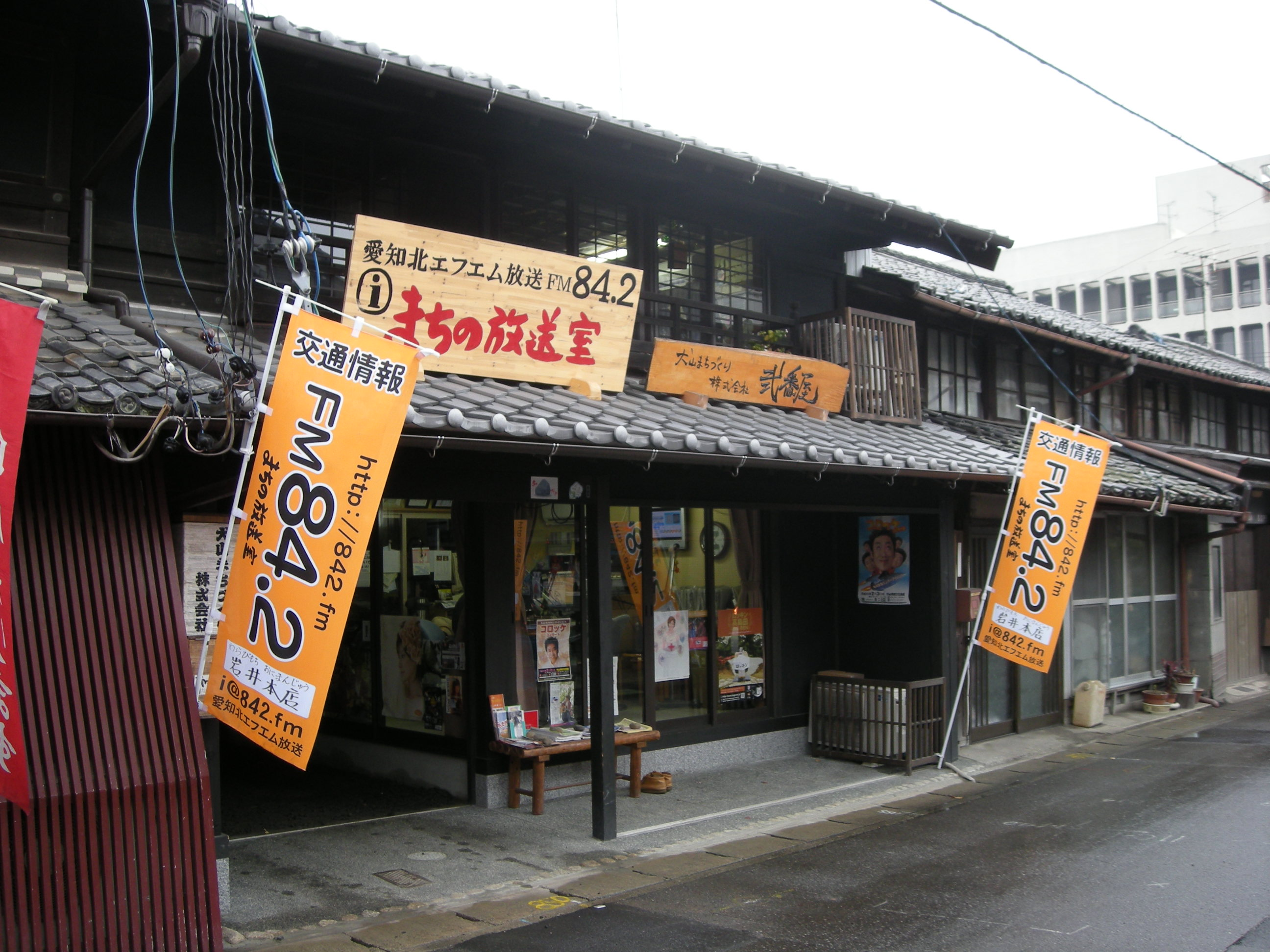 Aichi Kita FM Broadcasting（愛知北エフエム放送）